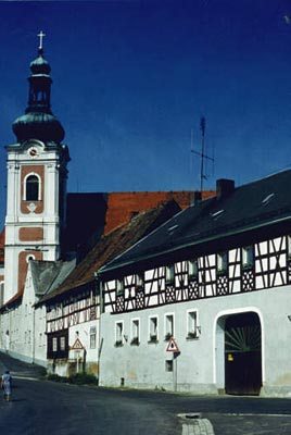 marketplace in Neualbenreuth Fotograf: Walter J. Pilsak, Waldsassen Copyright Status: GNU Freie Dokumentationslizenz